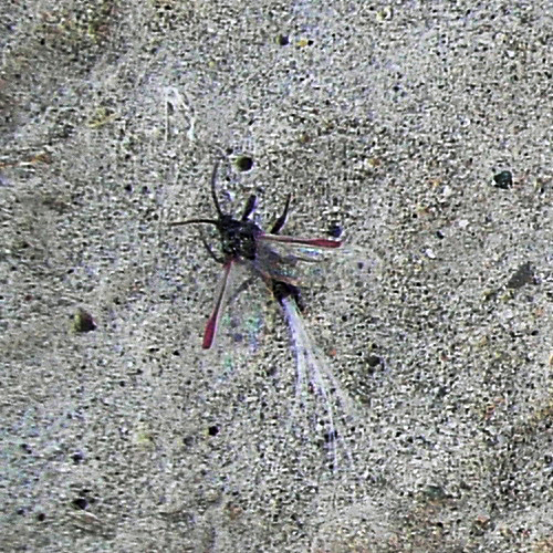 Porphyrophora hamelii, male